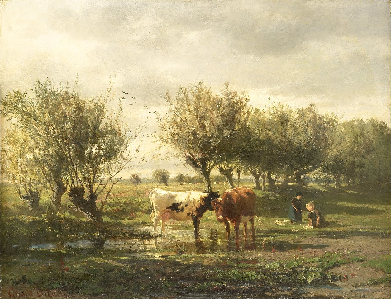 Cows at a pond. oil on panel. 27 cm x 35 cm